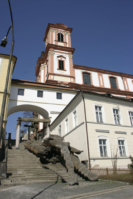 Annunciation church and Jesuite college by O. Broggio in Litoměřice, Czech Republic.